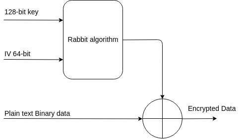 Rabbit encryption